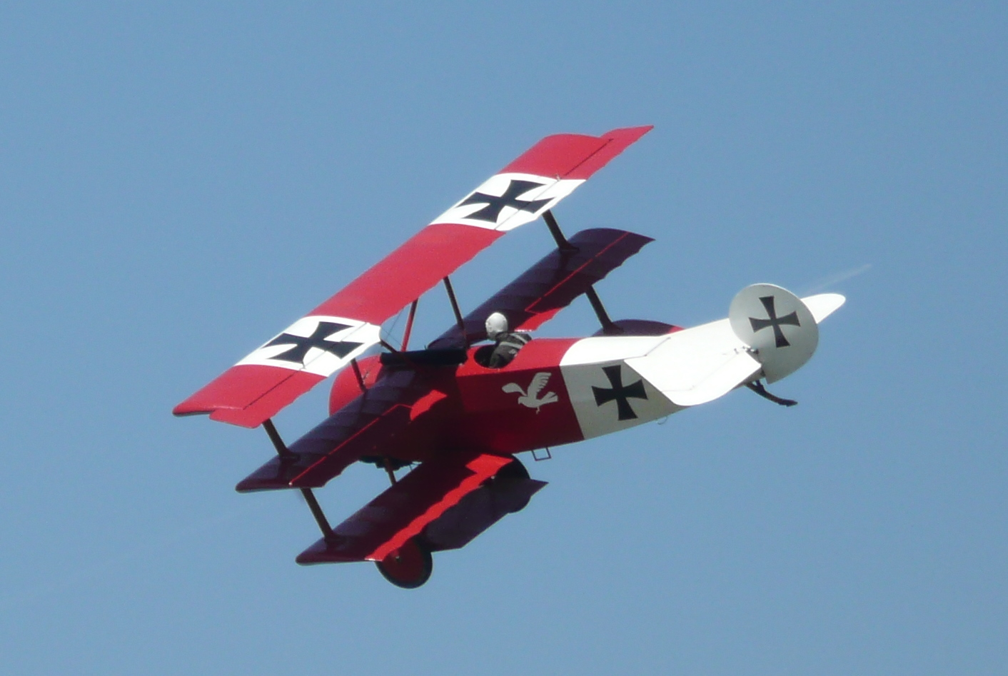 A replica of a German Fokker Dr1 from World War 1. Picture shot at La Ferté-Alais Air Show (France)